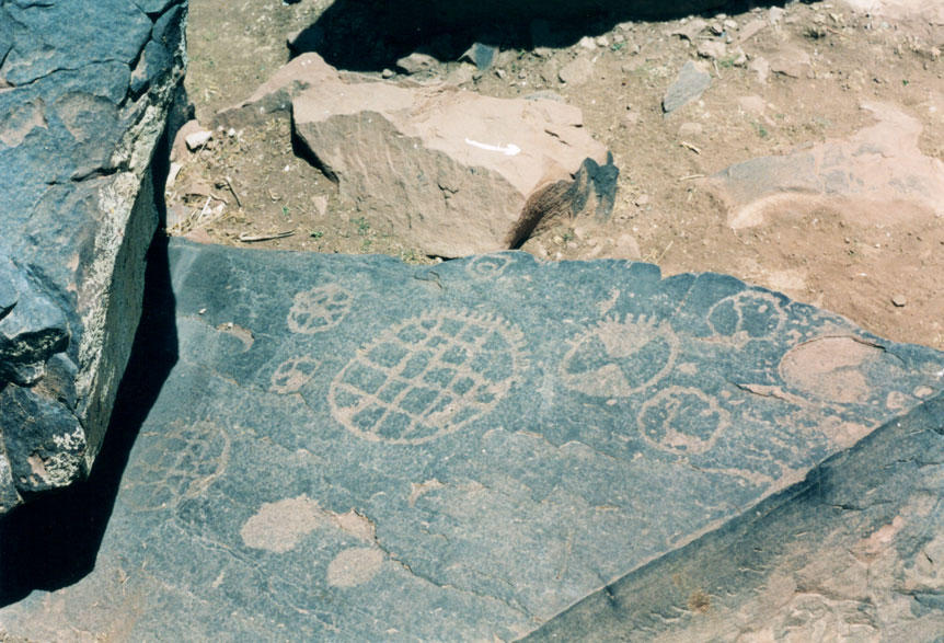 Prehistorical engraving at Oukaimeden (Morocco)